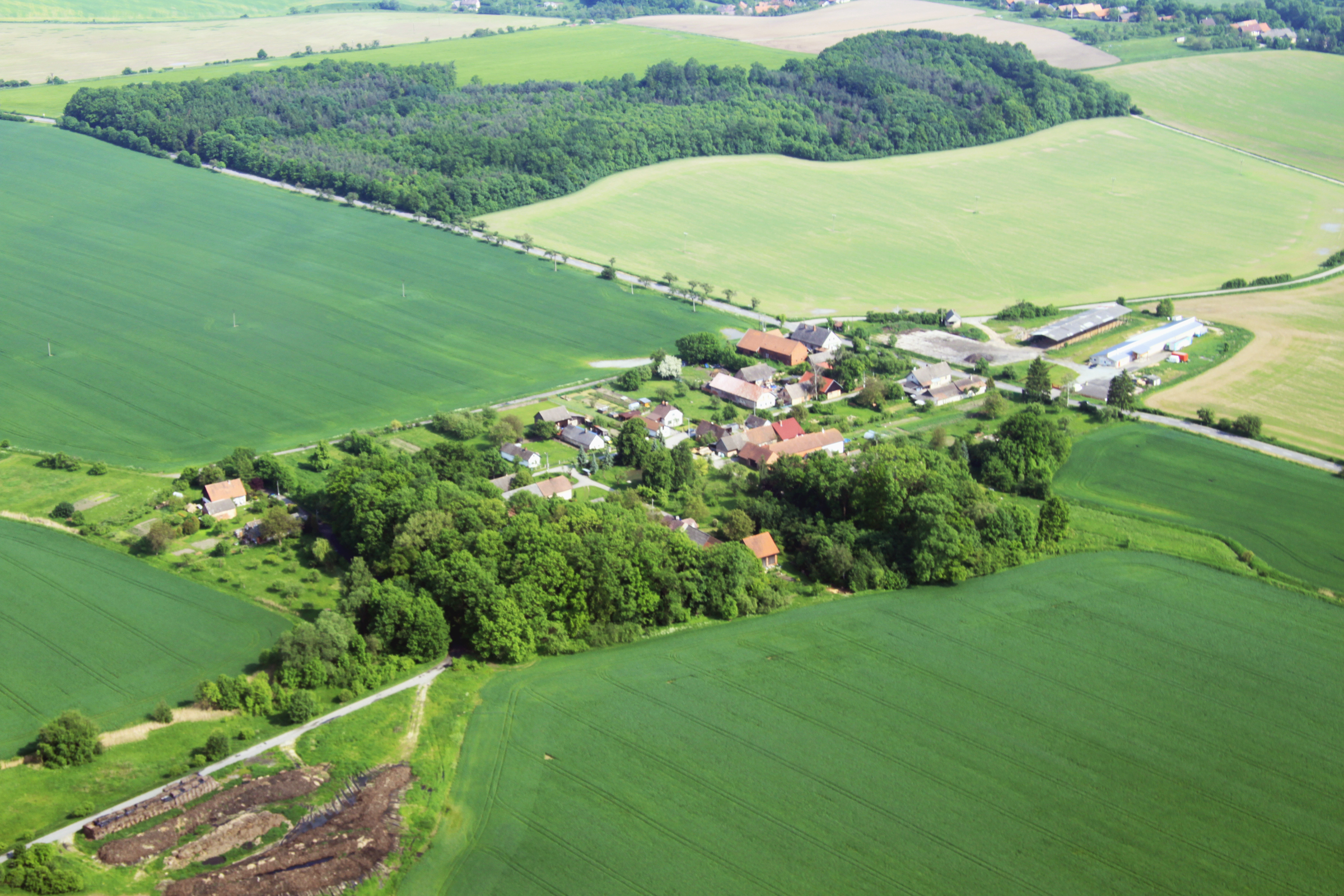 Village Volovka near of town Jaroměř from air, eastern Bohemia, Czech Republic